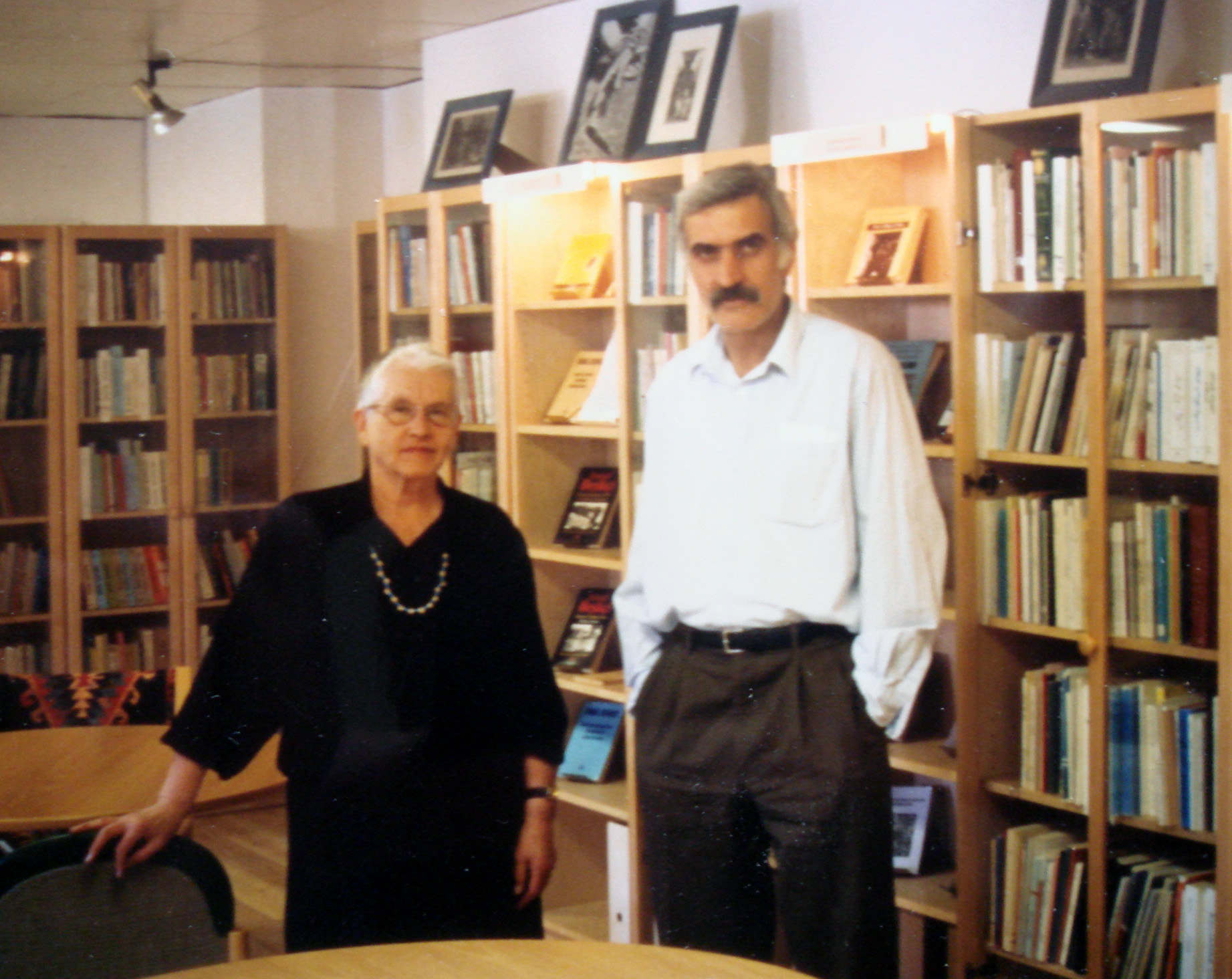 Nedim Dağdeviren, the founder of the Kurdish Institute in Stockholm, Sweden. The picture was taken 1998 in the Institute.